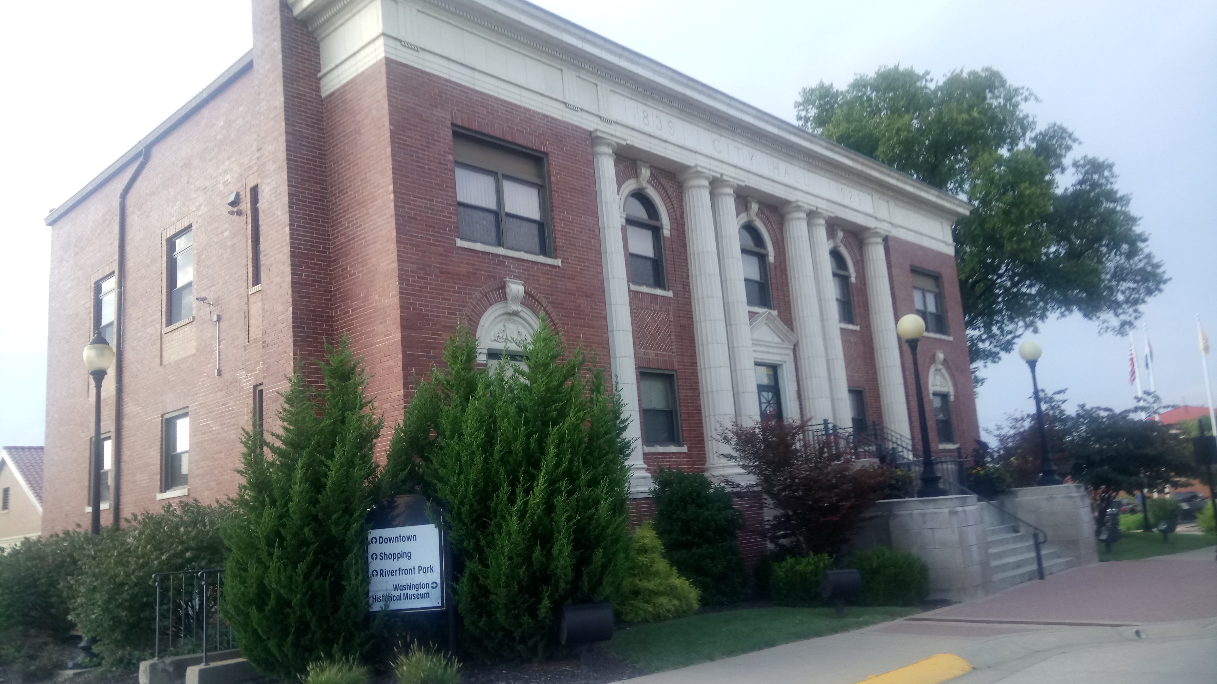 Washington, Missouri City Hall